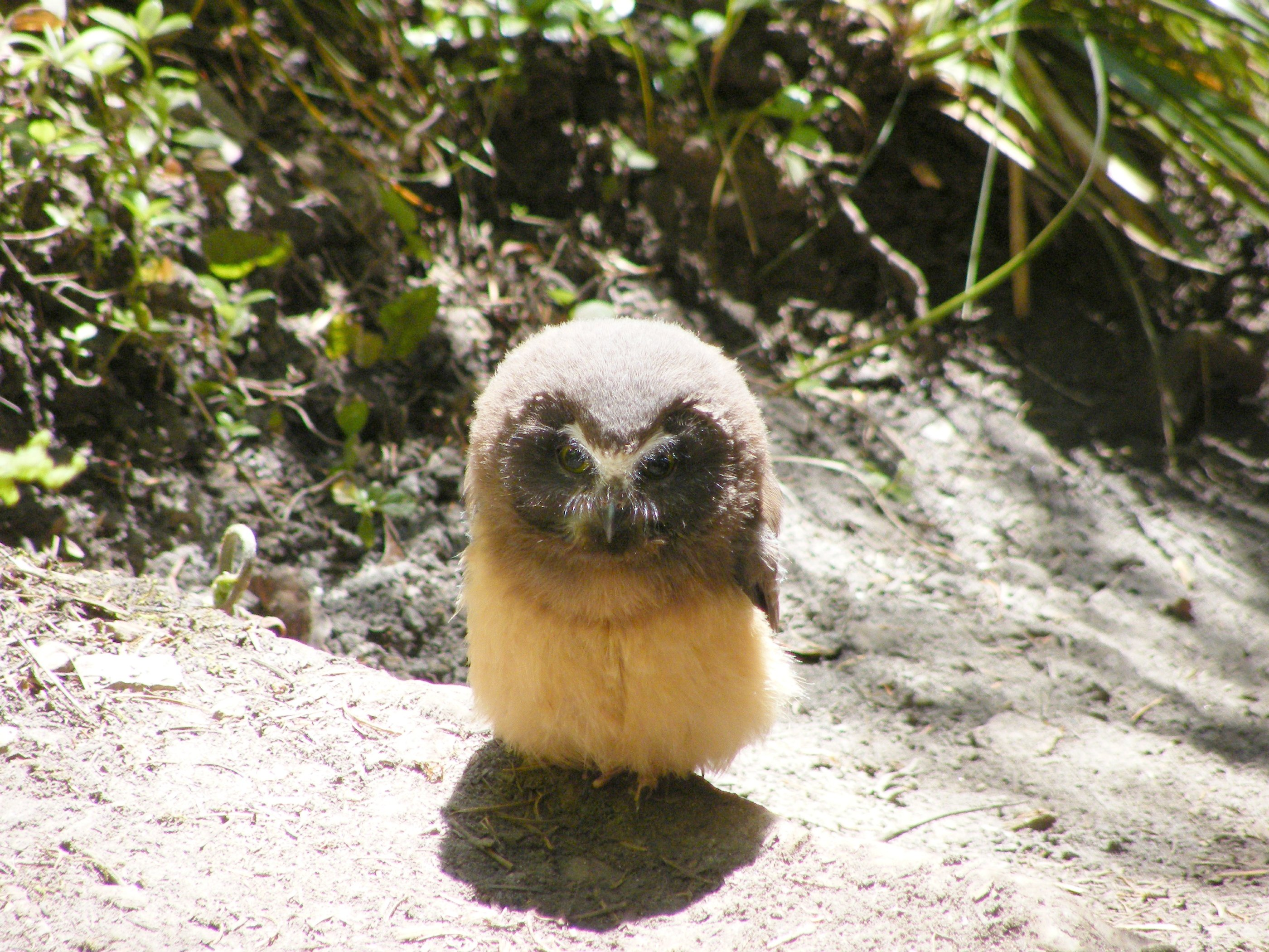 About six inches high. A bit dopey. Northern Saw-whet owl fledgling.